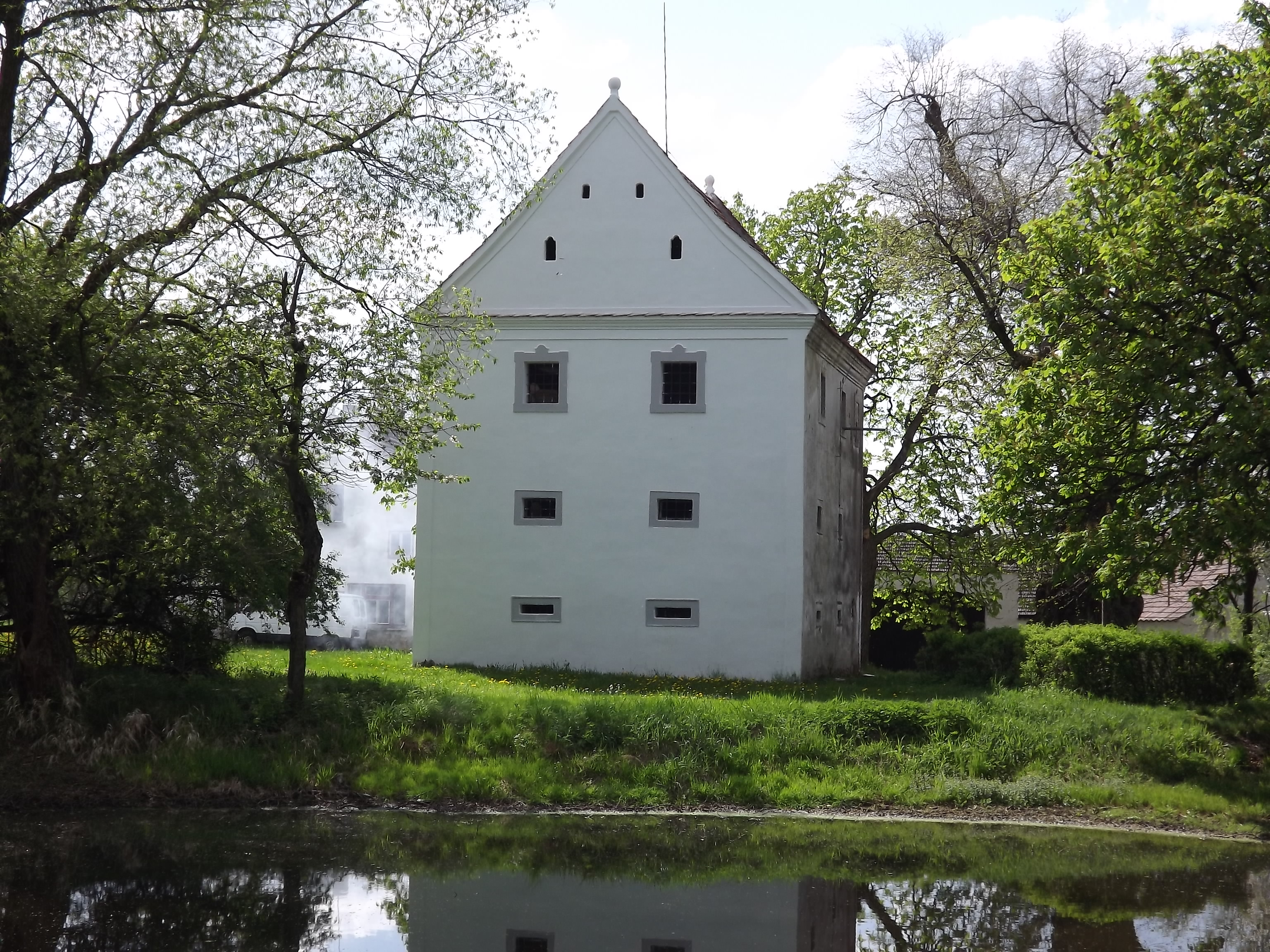 Baroque granary in Dolní Stropnice village. Český Budějovice District, Czech Republic.